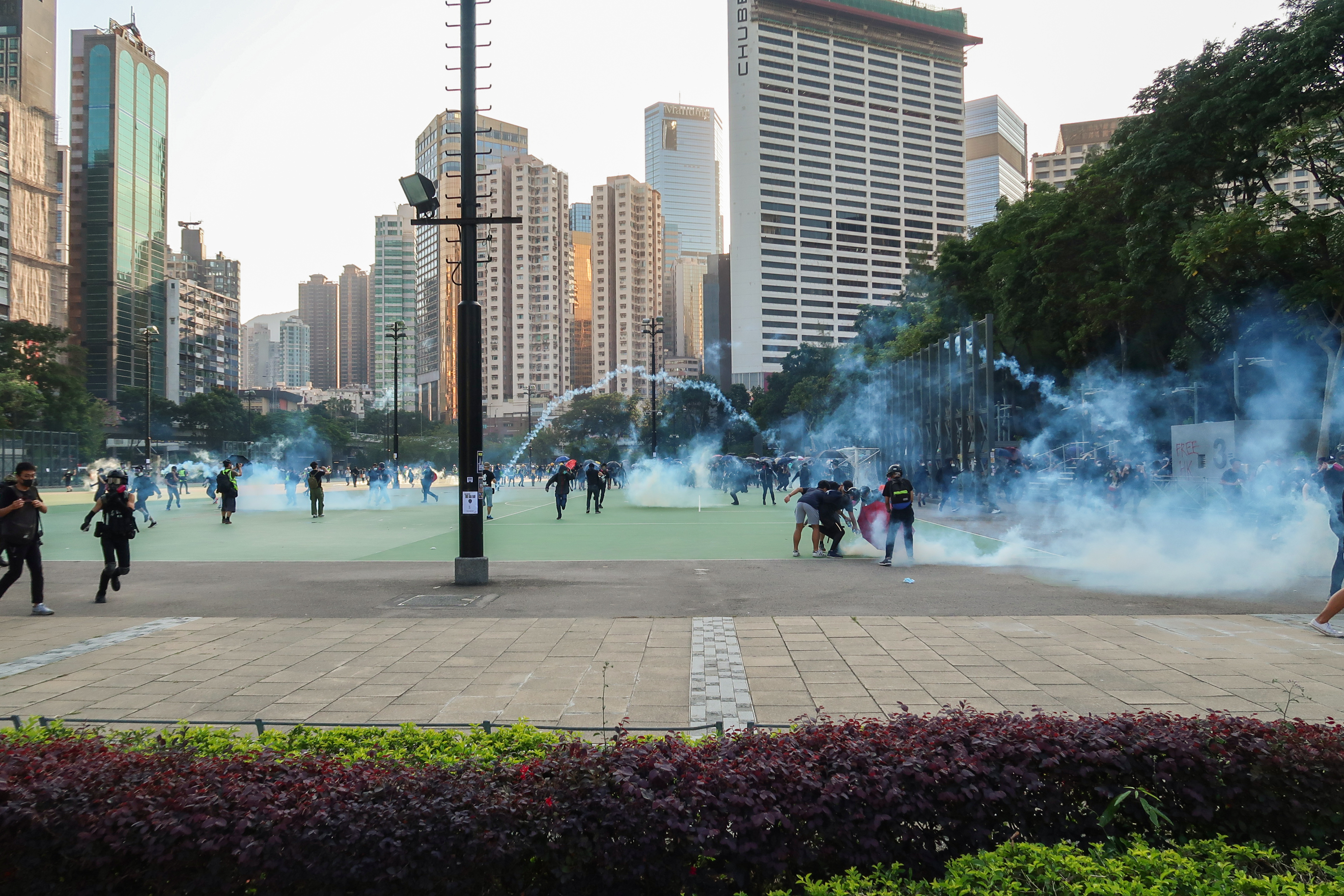 Police force release Tear gas inside Victotia Park